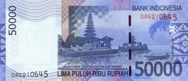 Indonesian currency issued 1998-2005.